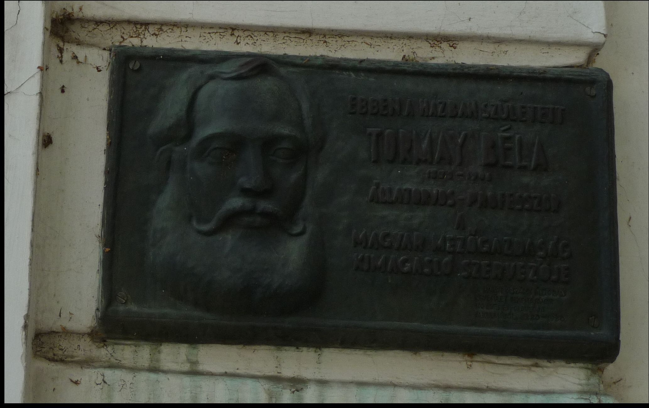 Béla Tormay relief in Szekszárd, Bezerédj Street No 1. Sculptor: László Juhos.